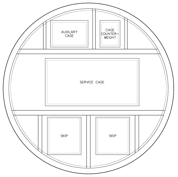 Typical mine shaft plan.